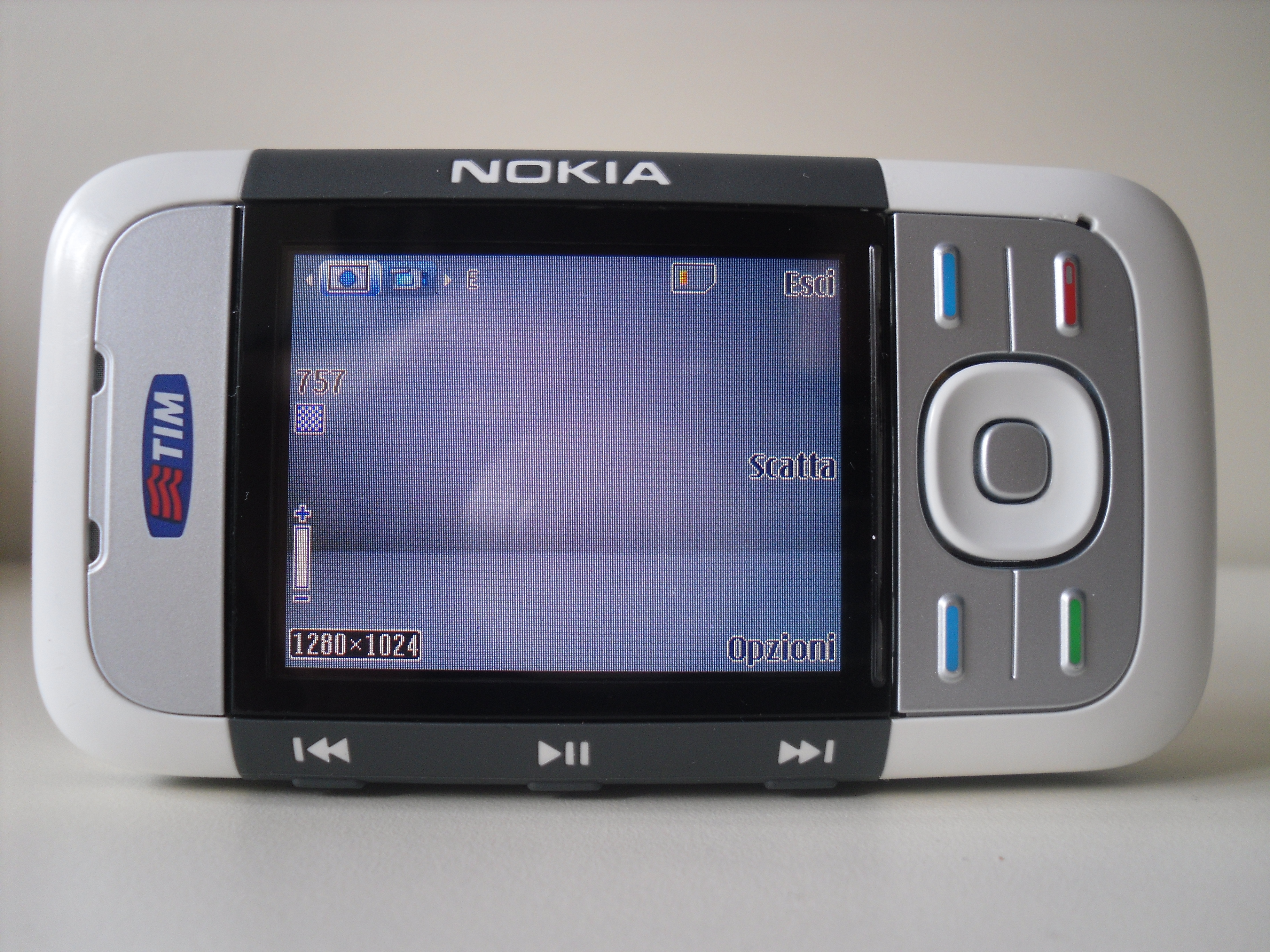 Nokia 5300's camera